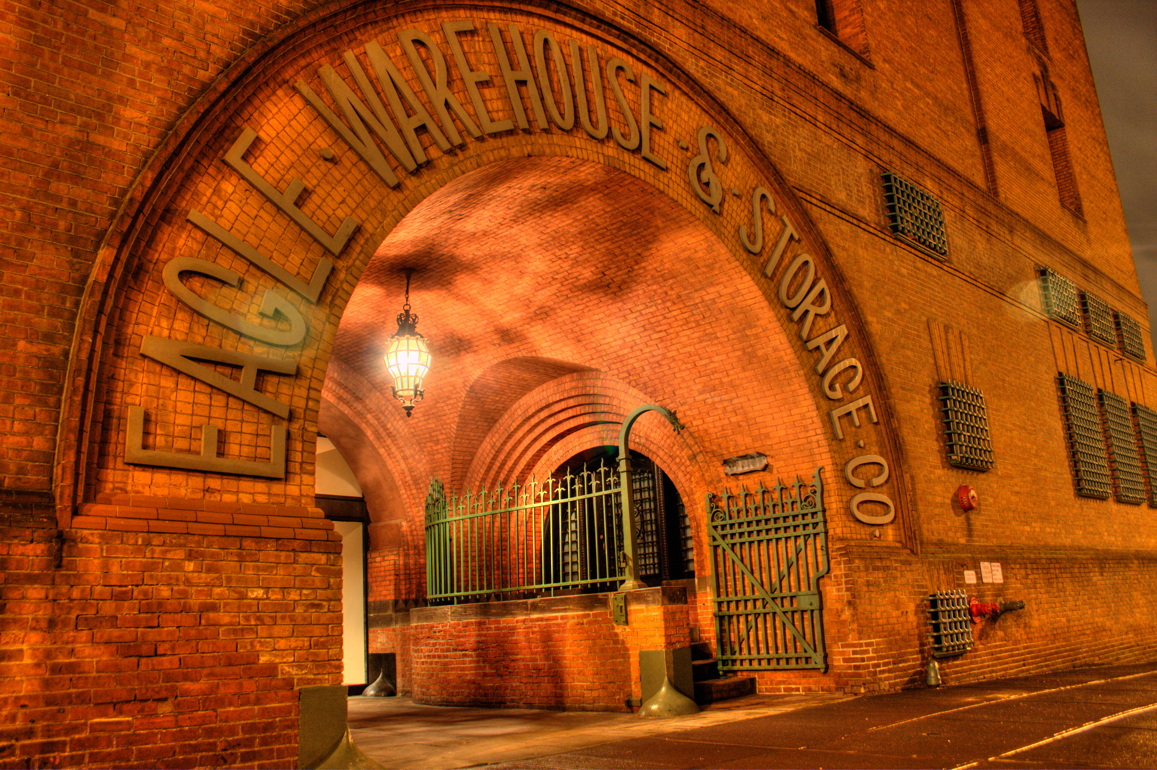 Main entrance of the Eagle Warehouse & Storage Company building at night.